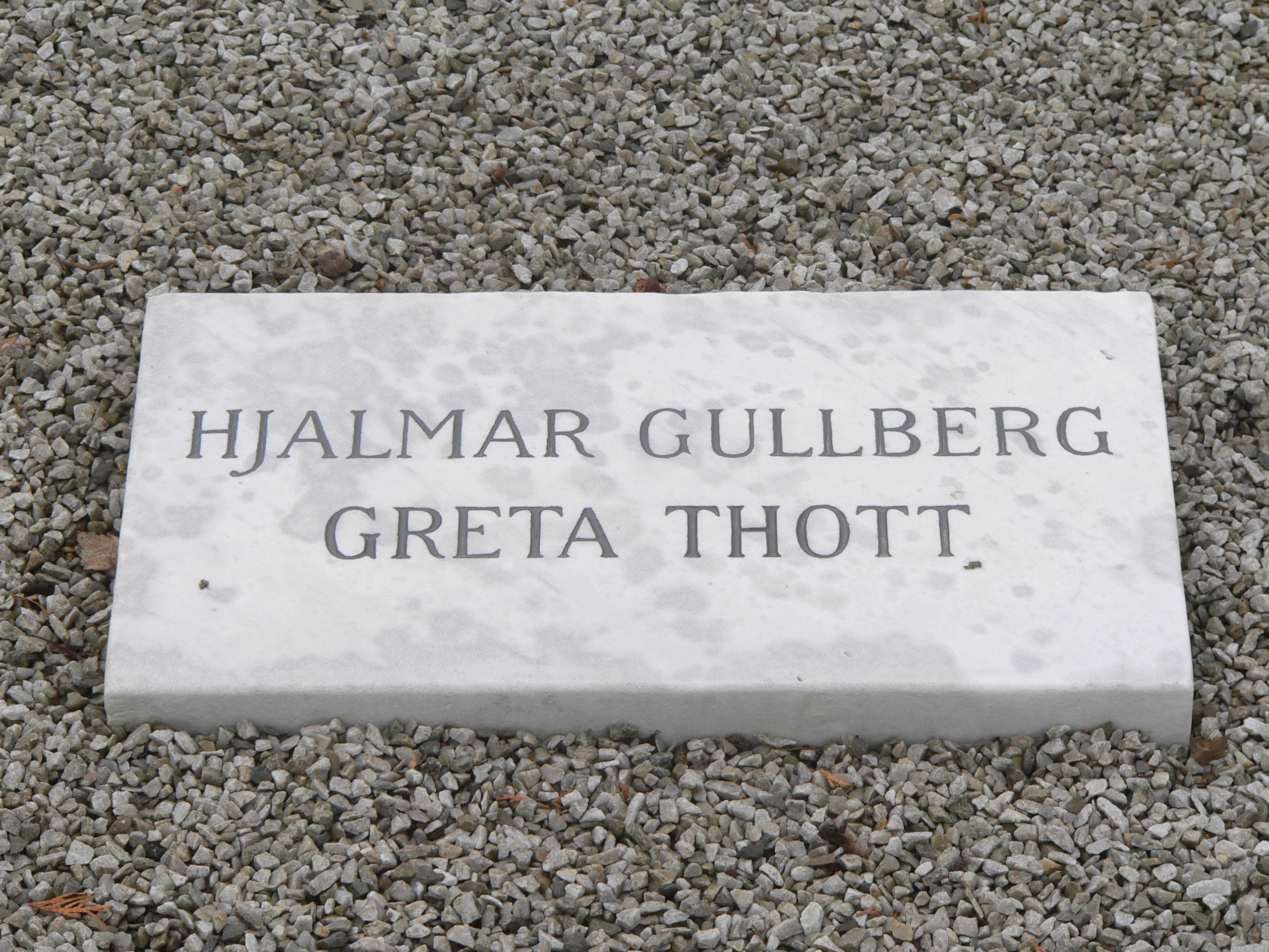 Tomb of Hjalmar Gullberg and Greta Thott at S:t Pauli Mellersta kyrkogård (Quarter 6, grave 177).